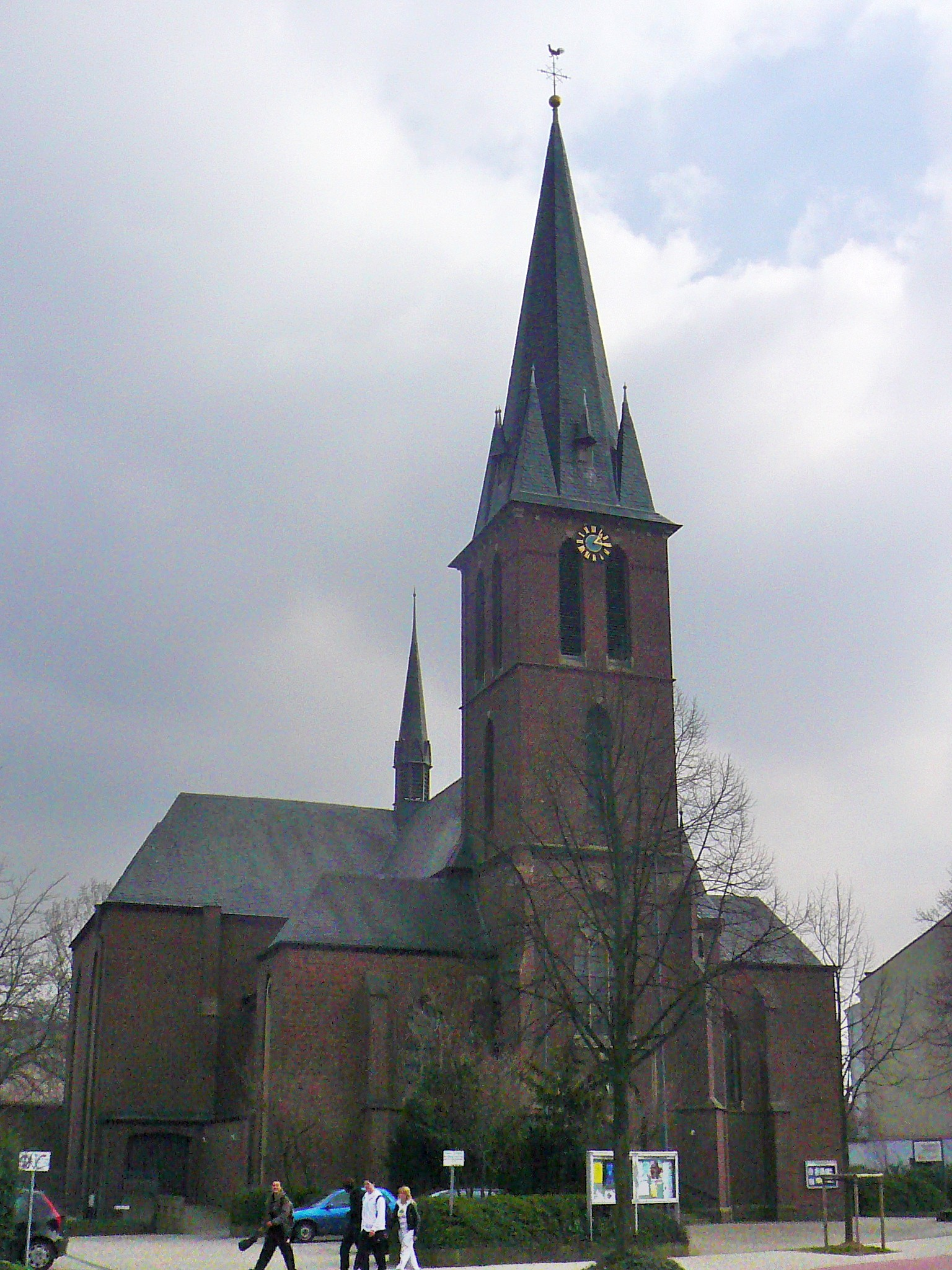 St. Mary under the cross in Düsseldorf, Germany